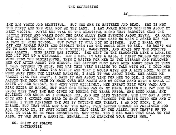 A possible Zodiac letter